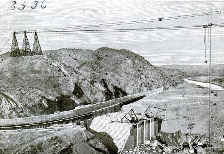 Photograph of the Elephant Butte Dam under construction circa 1914